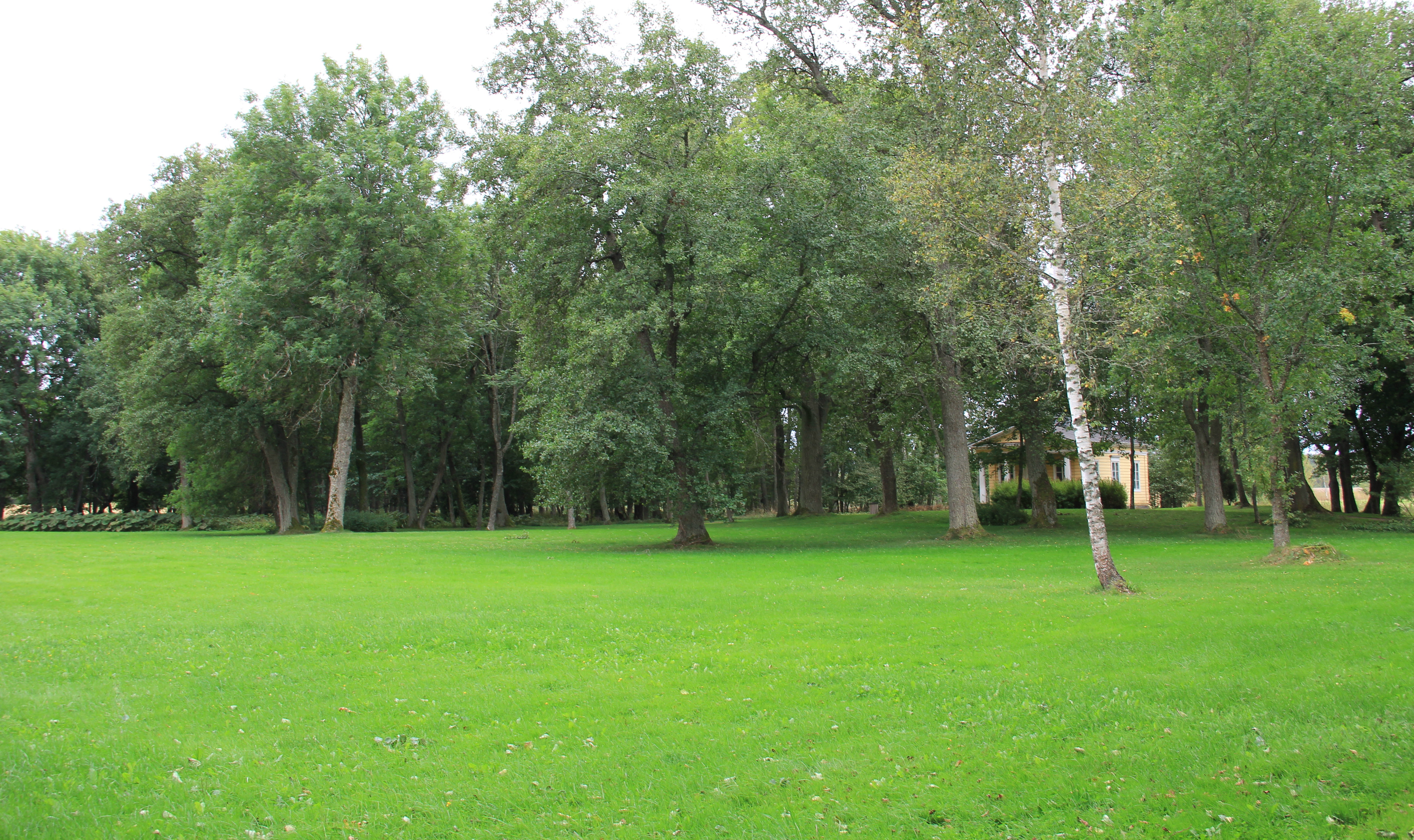 Louhisaari manor, Askainen, Masku, Finland. - Garden of Louhisaari.